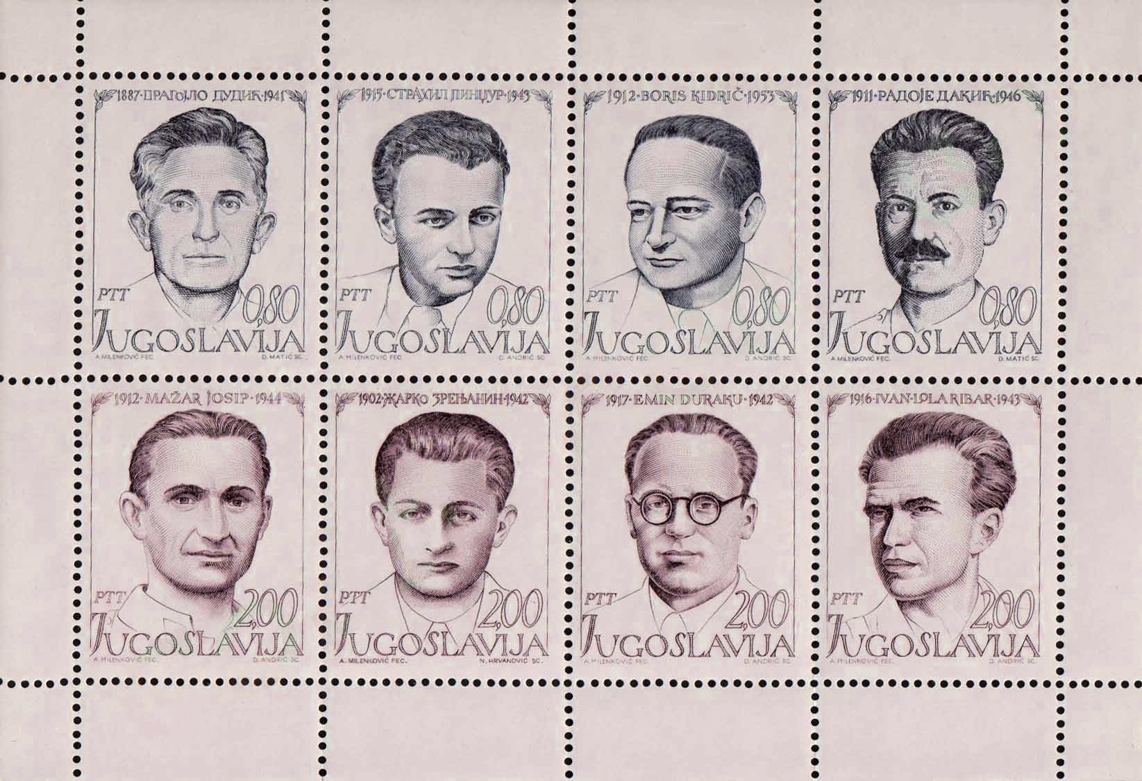 National heroes